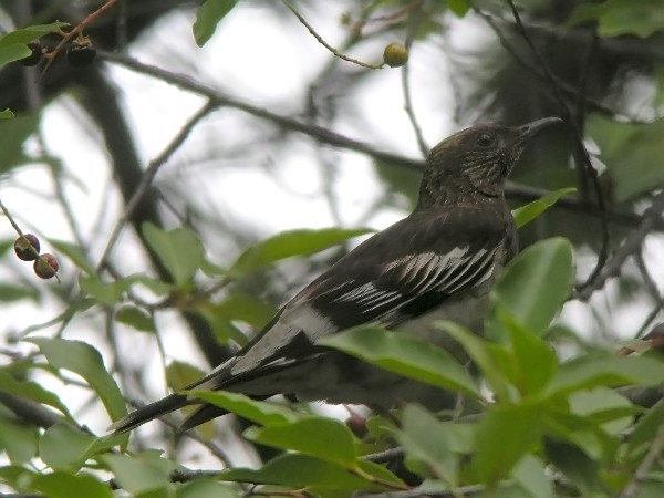 Aztec Thrush Ridgwayia pinicola (syn. Zoothera pinicola). This bird was glued to this branch for about 30 minutes. I digiscoped this indvidual in Madera Canyon, Arizona, USA on 28 July 2006. These birds stage occasional invasions into the mountain canyons of southeast Arizona. The summer of 2006 was a good year.